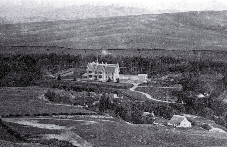 Glenmark Mansion between 1888 (the year it was finished) and January 1891 (when it burned down).